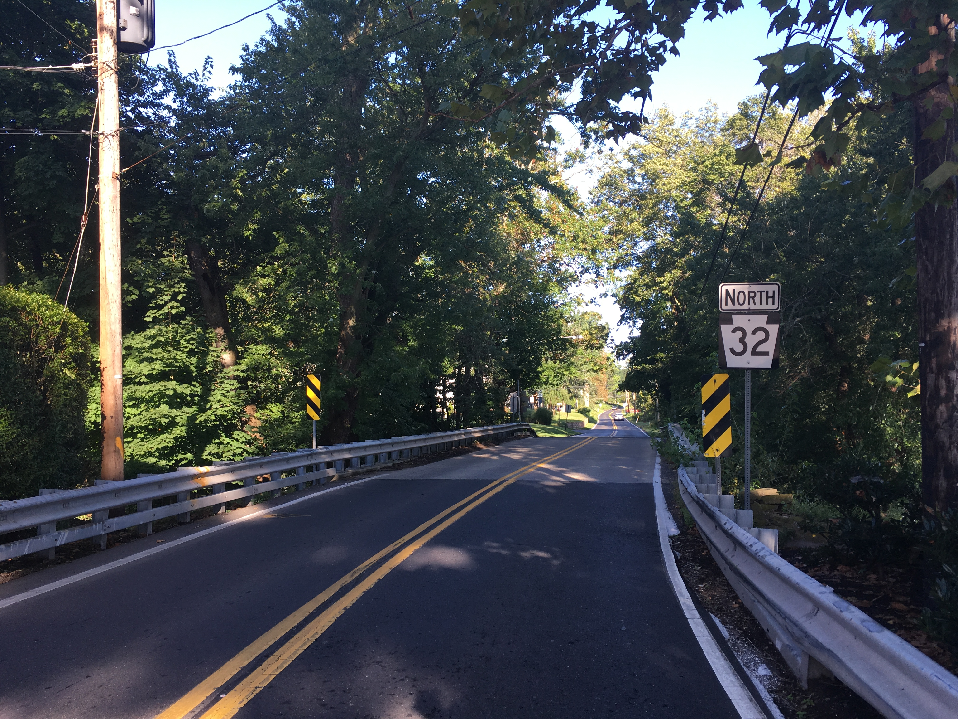 Northbound Pennsylvania Route 32 (Delaware Avenue) past the intersection with the the eastern terminus of Pennsylvania Route 332 (Afton Avenue) in Yardley, Pennsylvania